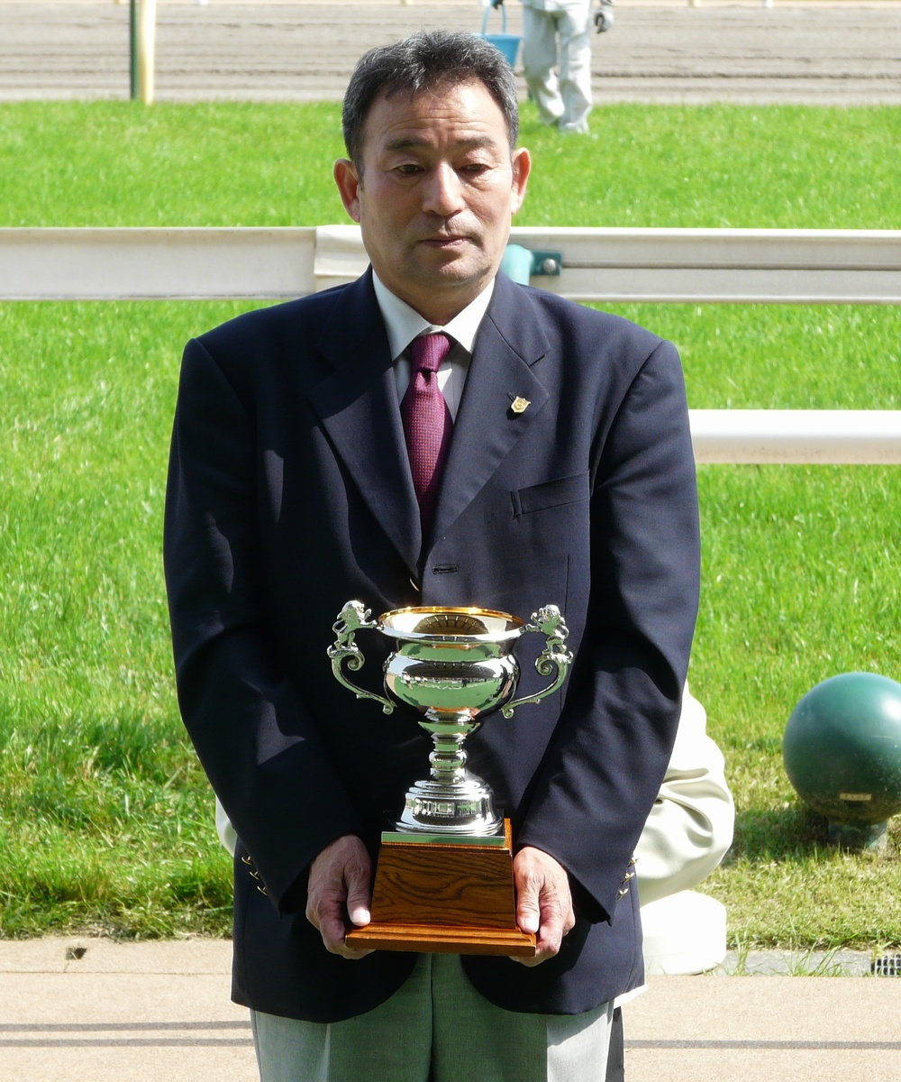 Katsumi-Minai20110604